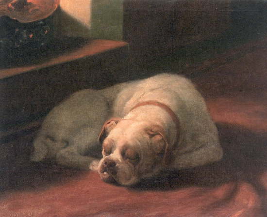 Bulldog Sound Asleep